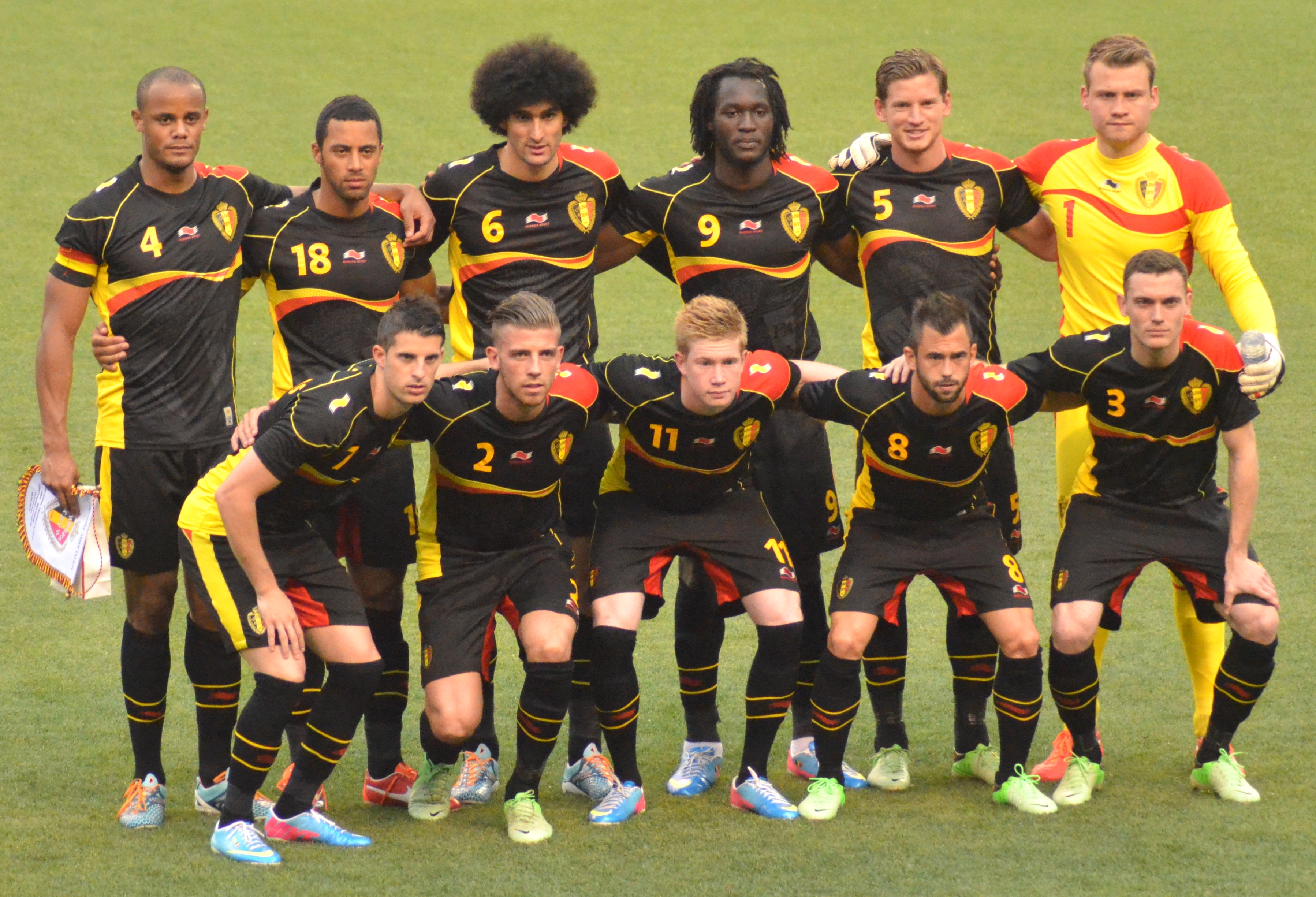 (Picture taken at FirstEnergy Stadium Home of the Cleveland Browns) Back row, left to right: Vincent Kompany, Mousa Dembélé, Marouane Fellaini, Romelu Lukaku, Jan Vertonghen, Simon Mignolet Front row, left to right: Kevin Mirallas, Toby Alderweireld, Kevin De Bruyne, Steven Defour, Thomas Vermaelen